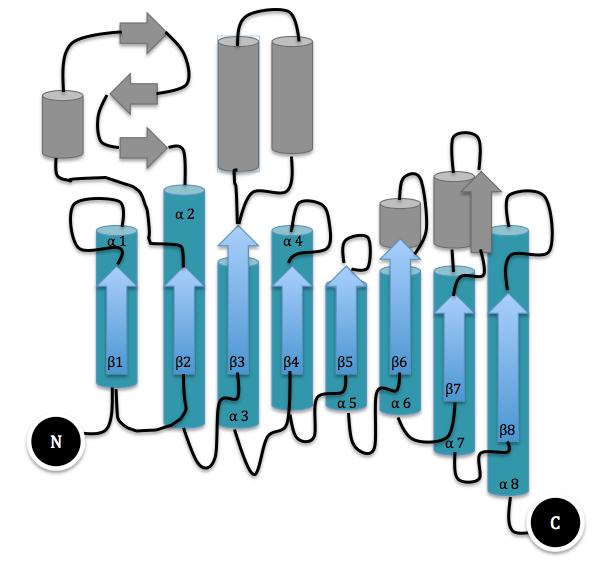 Made in Microsoft Word